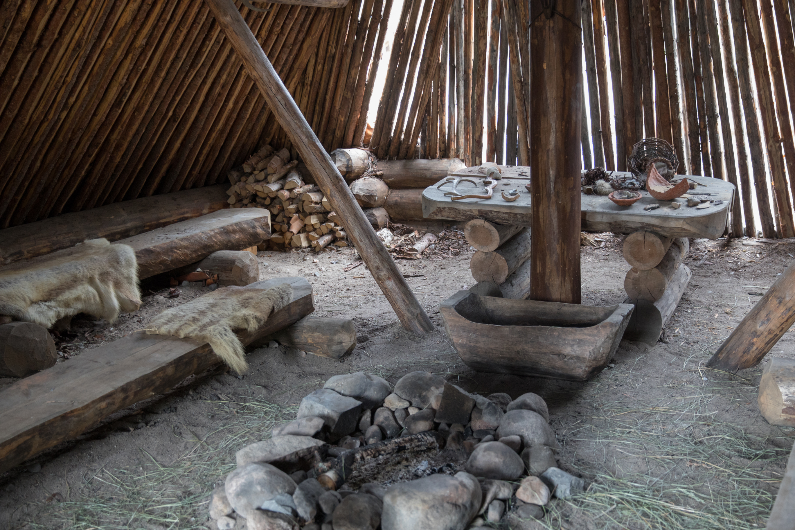 Stone Age dwelling at Kierikki Stone Age Centre